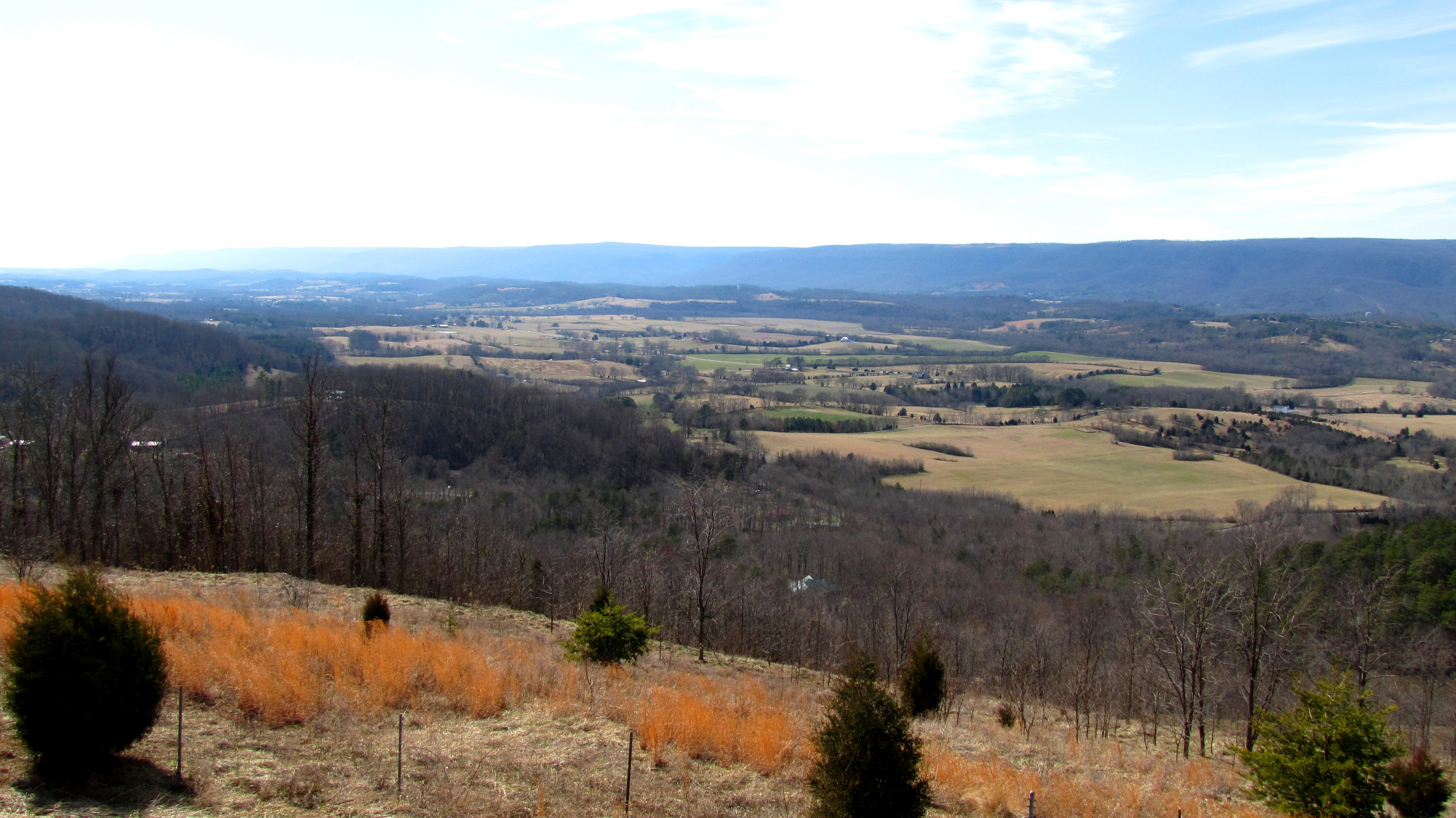 The Sequatchie Valley, an anticline valley in southeastern Tennessee, USA. This view is southwest from an overlook along TN-111 as the road ascends Walden Ridge. The opposite wall of the Cumberland Plateau spans the horizon. Sequatchie County, Tennessee is below, with Marion County further down the valley.